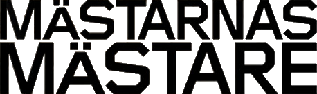 The logotype for the Swedish TV show "Mästarnas mästare" (as of 2010).